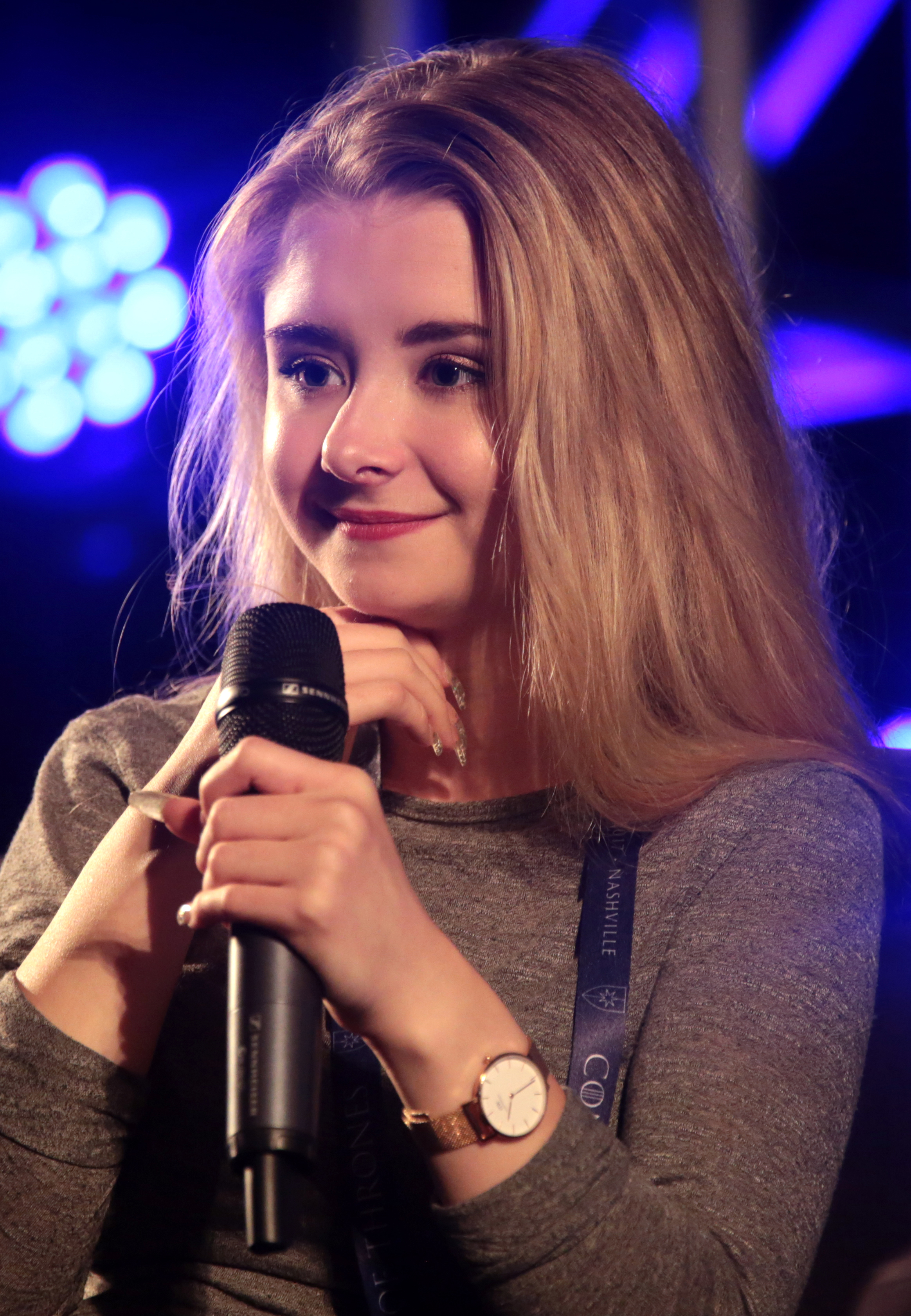 Kerry Ingram speaking at an event in Nashville, Tennessee.